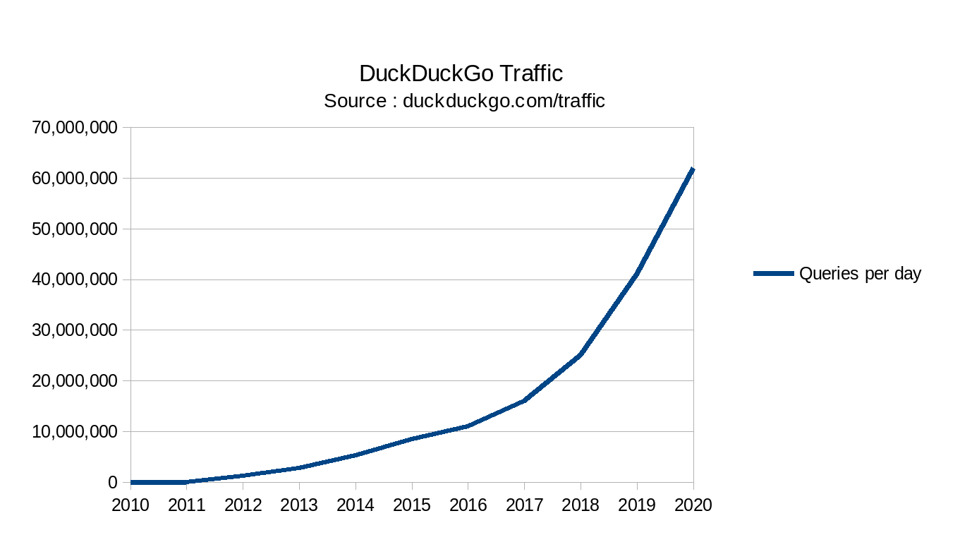 Traffic per day from 2010 to 2020 of DuckDuckGo